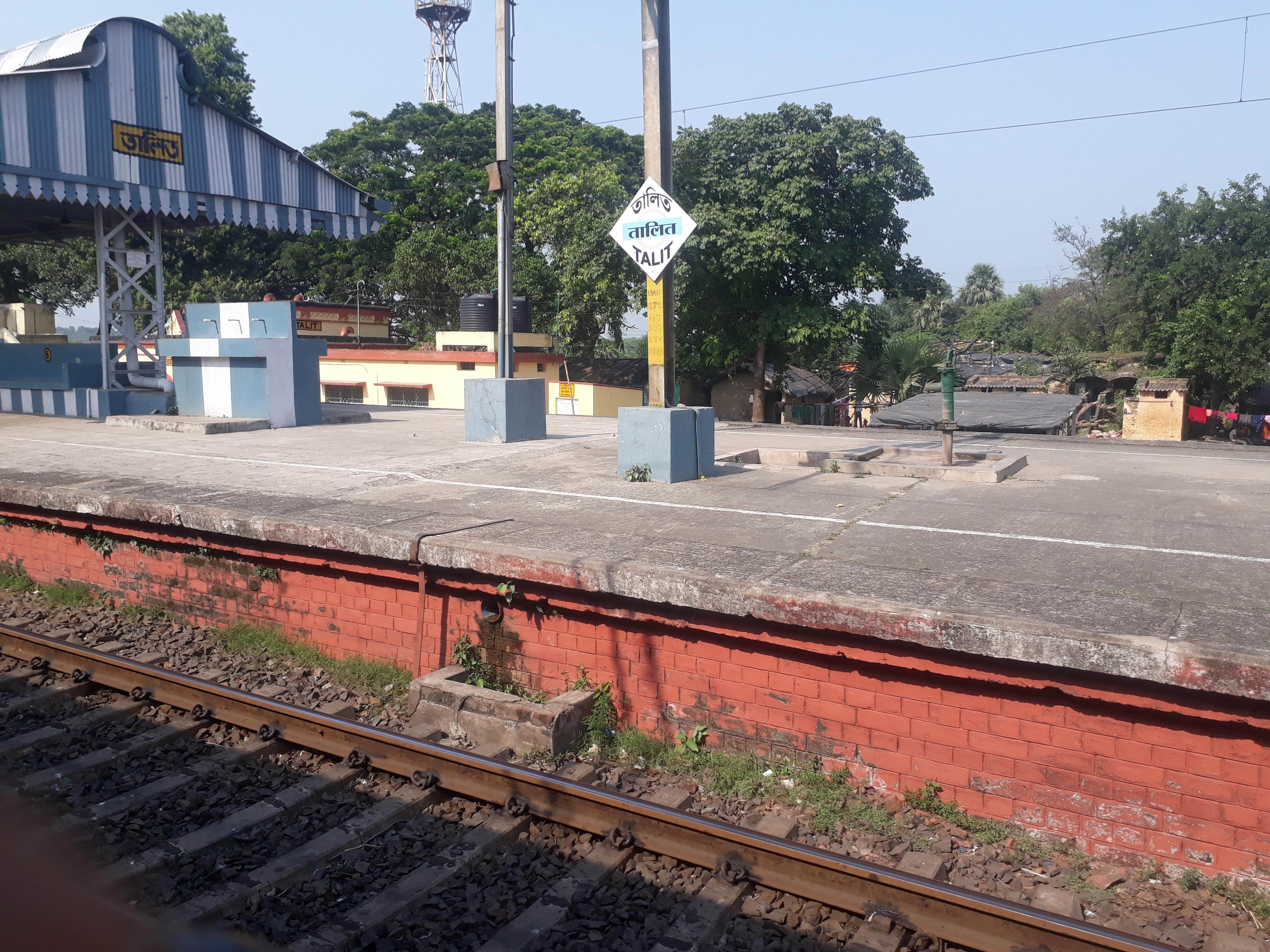 Railway stations and platforms in West Bengal, Indian Railways.